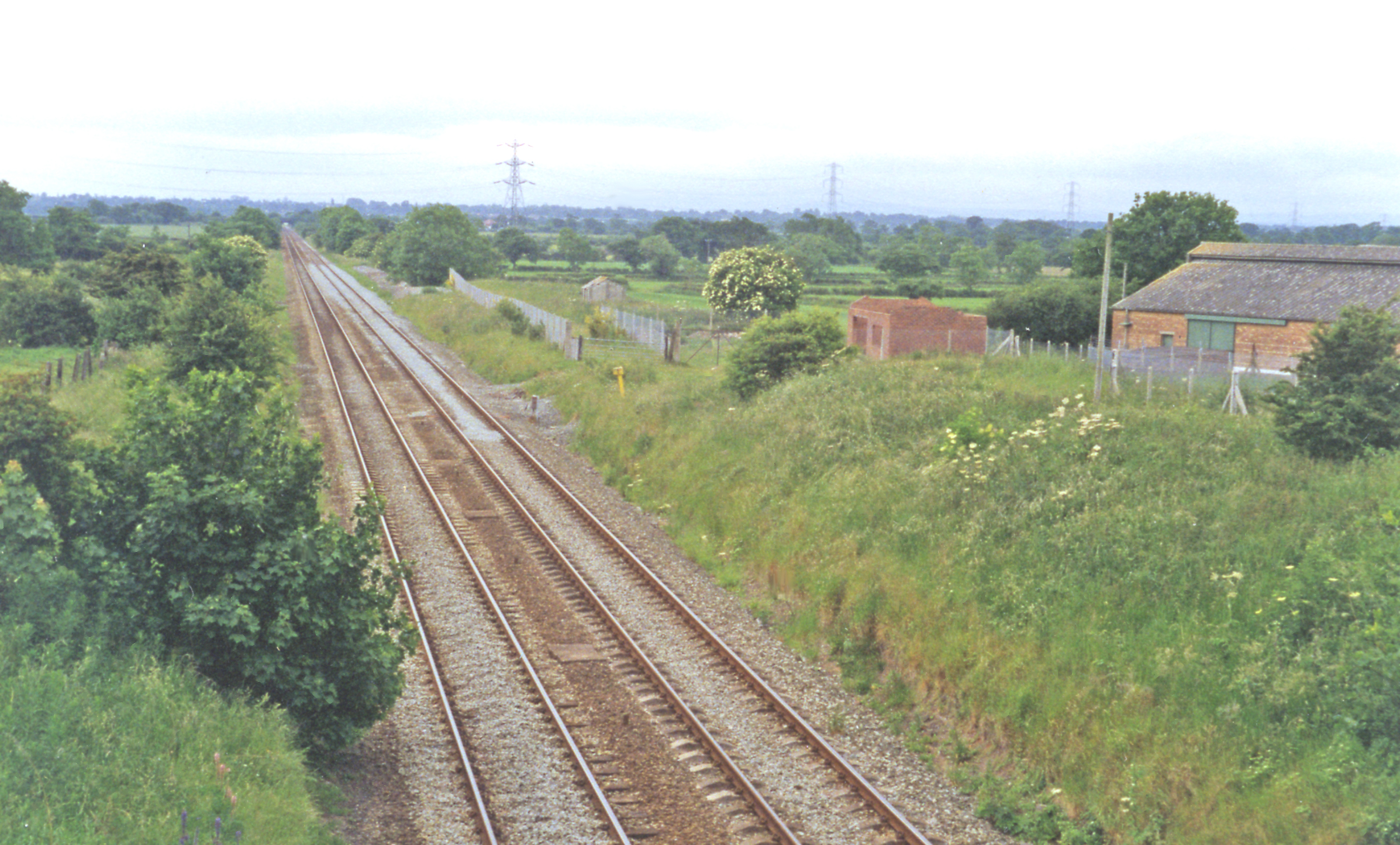 Site of Dunham Hill station Looking SW from the Hob Lane bridge. Dunham Hill station was on the Birkenhead, Lancashire & Cheshire Junction Railway’s (BLCJR) Warrington and Chester line which opened on 31 October 1850. The station opened as Dunham on 18 December 1850. It closed to passengers on 7.4.1952 and completely on 7.5.1956.